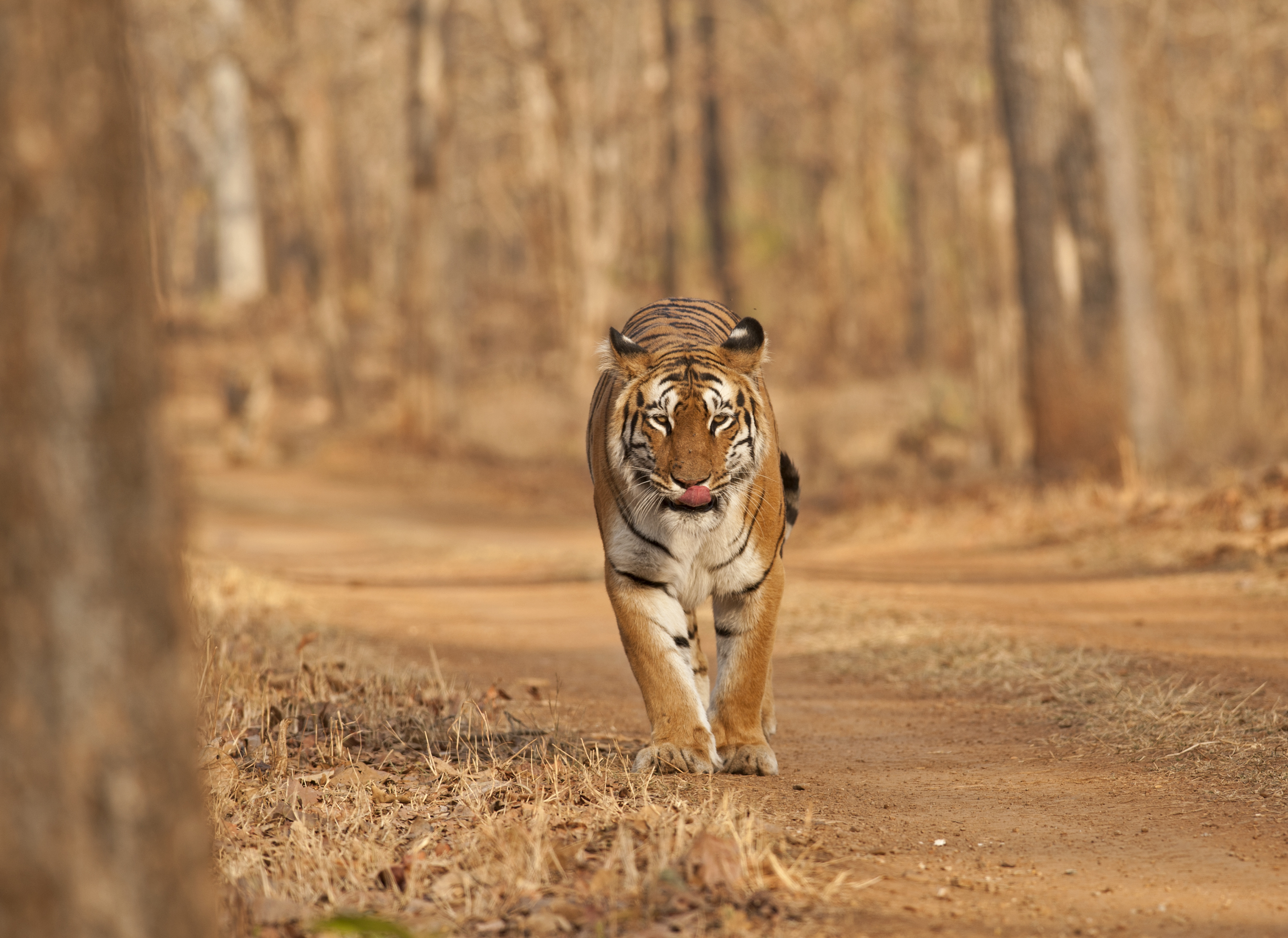 A Mark Tigress from Nagzira